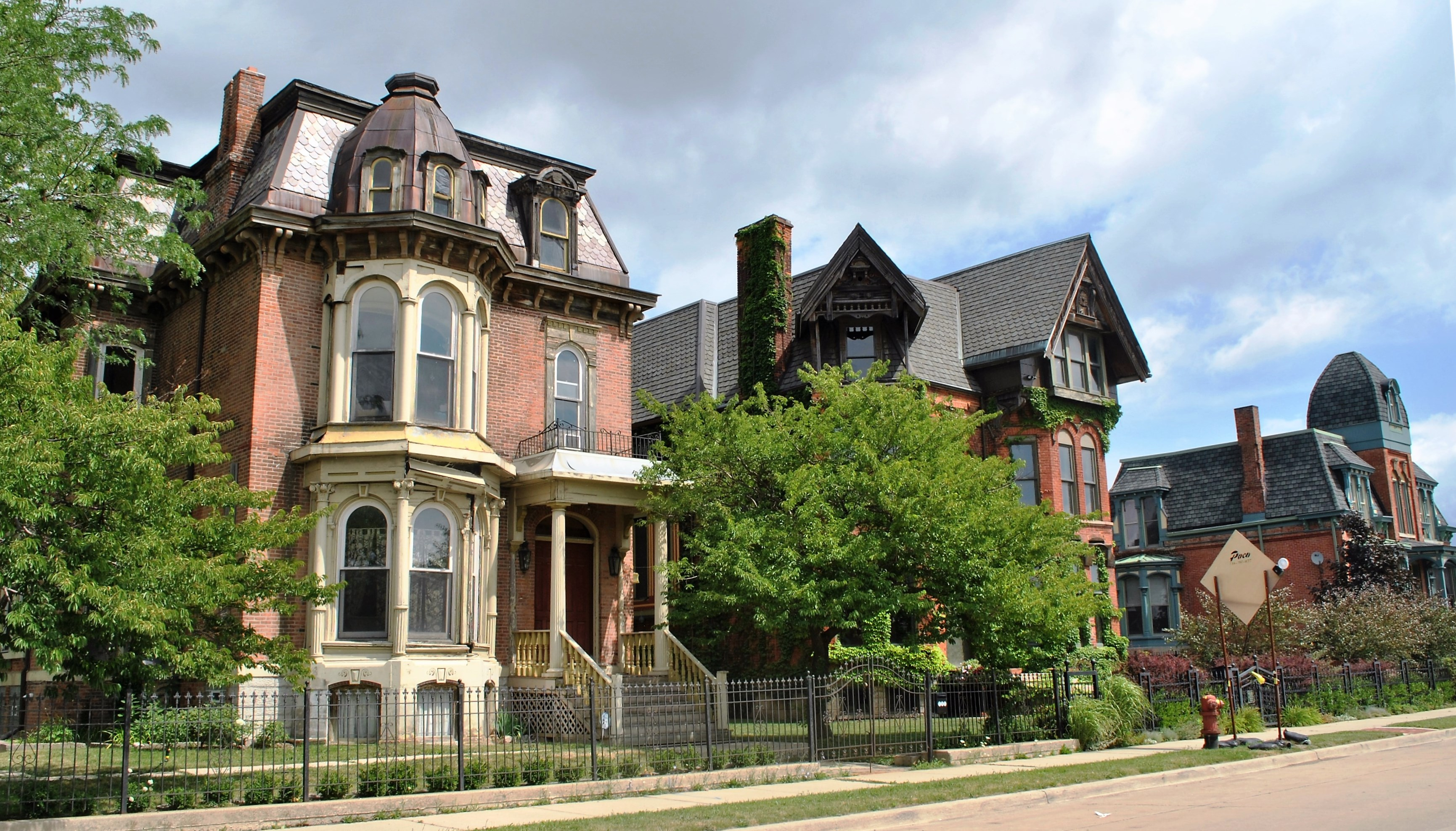 Image originally published in Queer Places: Retracing the Steps of LGBTQ people around the World Authored by Elisa Rolle